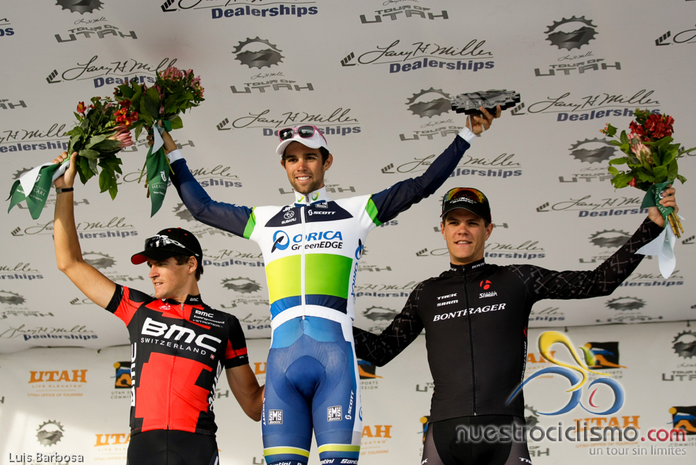 Podium of the 4th stage of the Tour of Utah 2013. Michael Matthews (Orica), Greg Van Avermaet (BMC) and Jasper Stuyven (Bontrager)